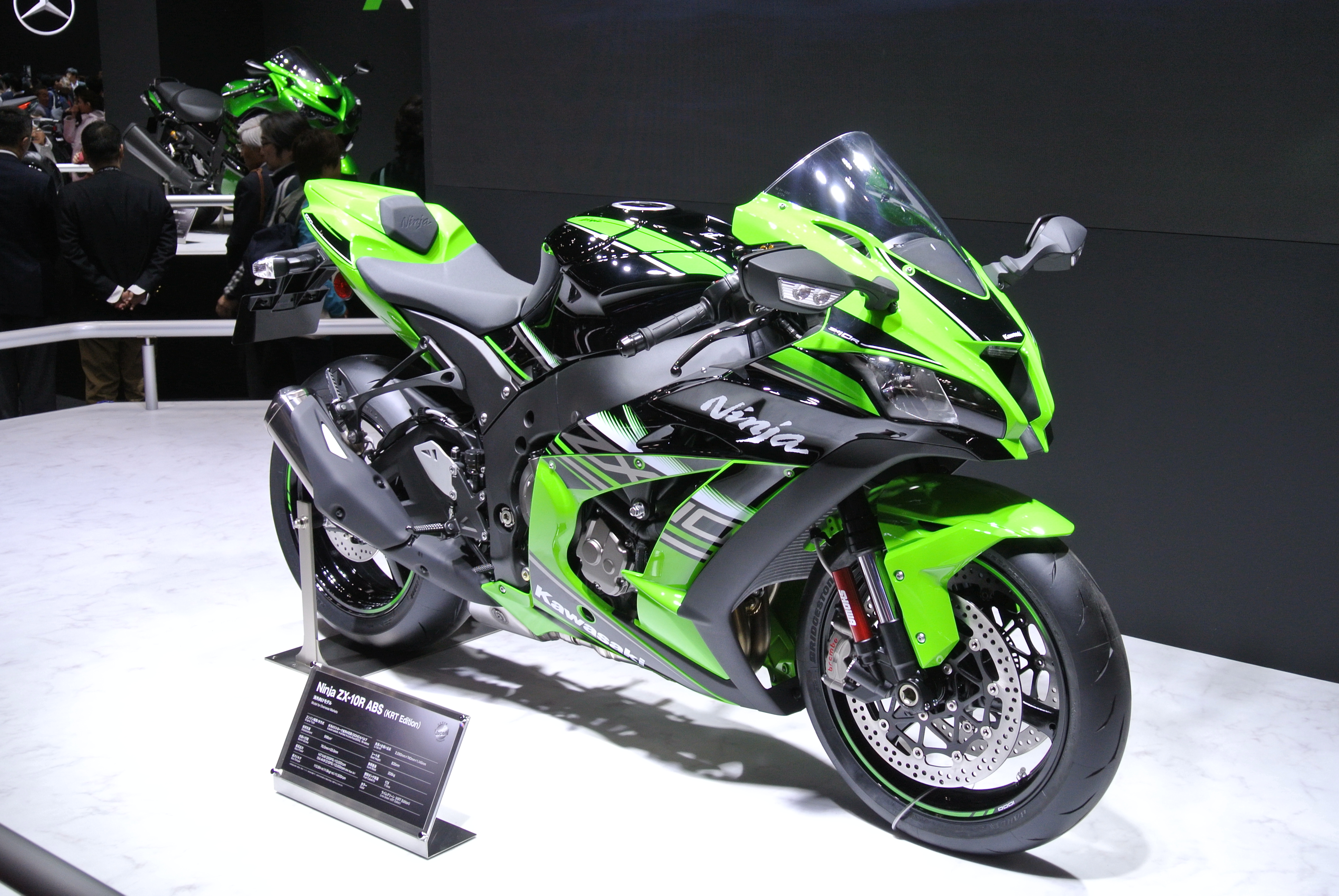 Kawasaki Ninja ZX-10R (KRT Edition) at the Tokoyo Motor Show 2015.